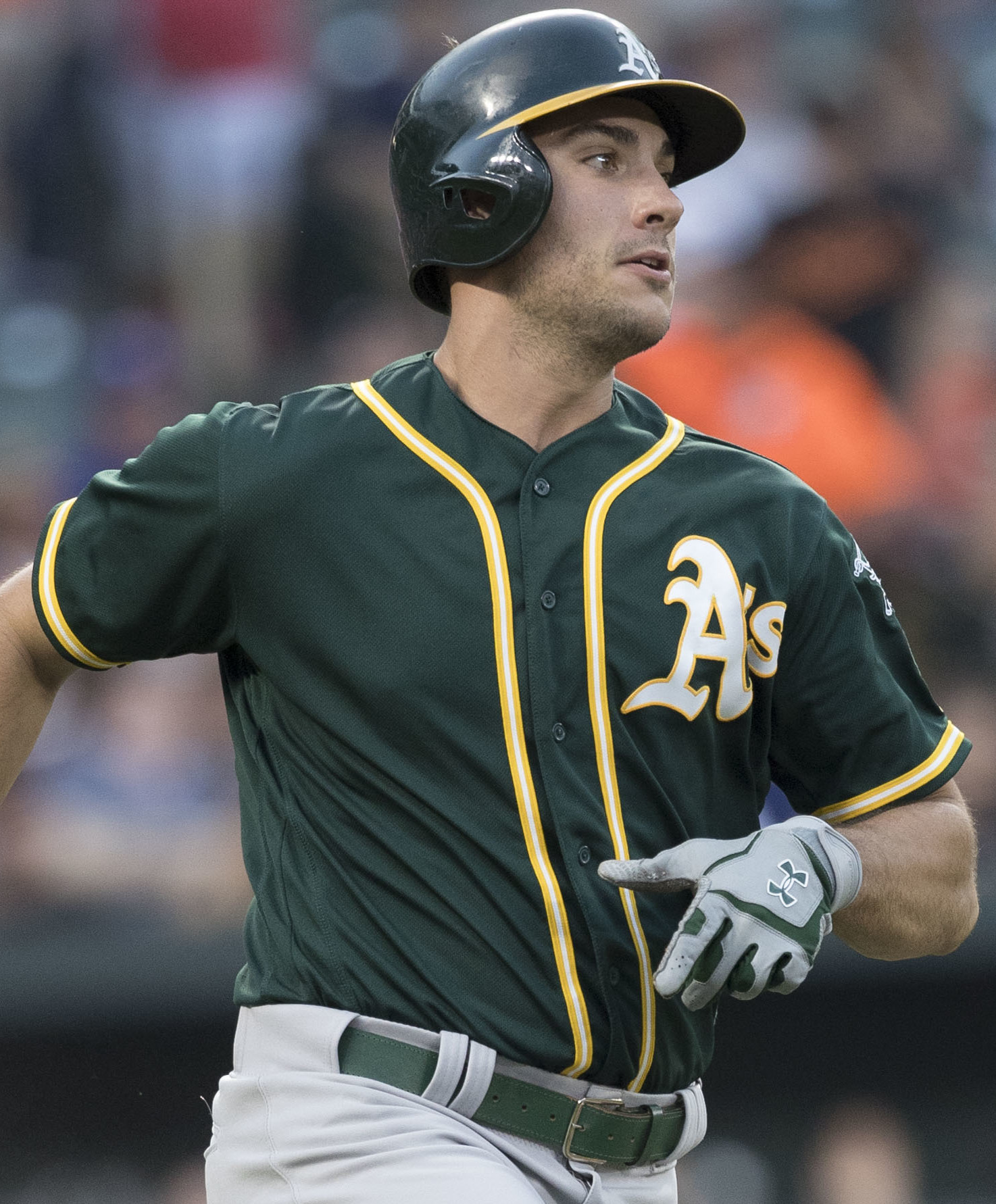 A's at Orioles 8/22/17